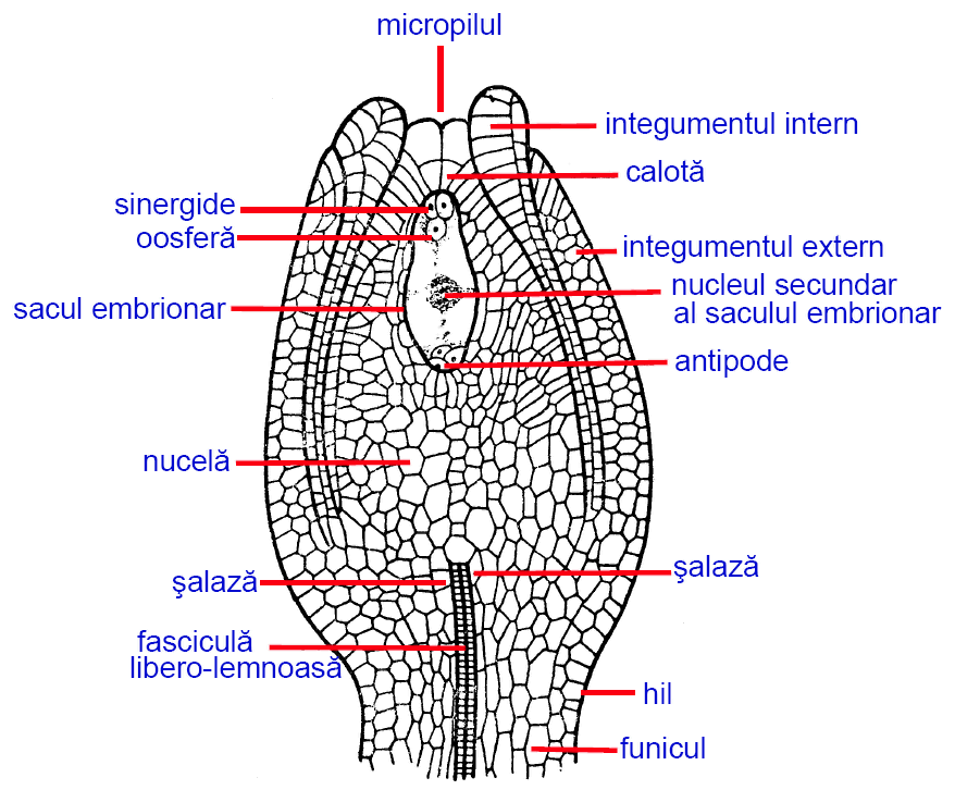 Ovule of Polygonum divaricatum